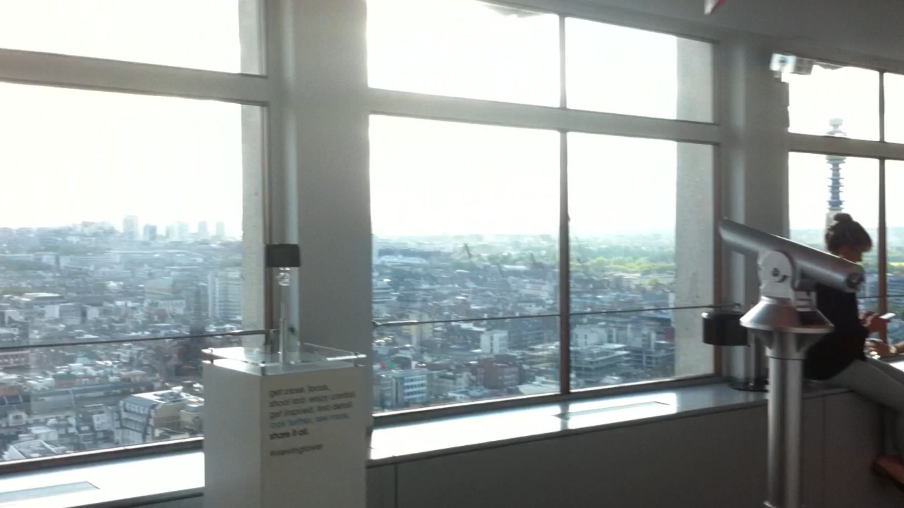 Image of the Observation Deck on the top floor of Centre Point in central London.